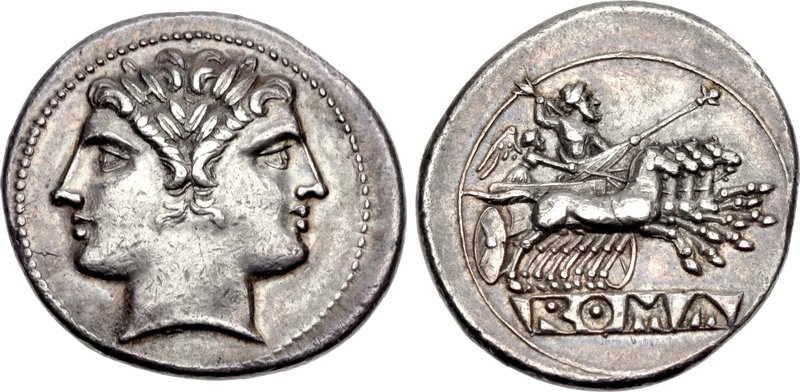 Rome Anonymous. Circa 225-214 BC. AR Quadrigatus (23mm, 6.73 g, 8h). Rome mint. Laureate head of Janus, slightly curved truncation Jupiter, hurling thunderbolt in right hand and scepter in left, in fast quadriga driven right by Victory; ROMA incuse on raised tablet in exergue. Good VF, attractively toned.